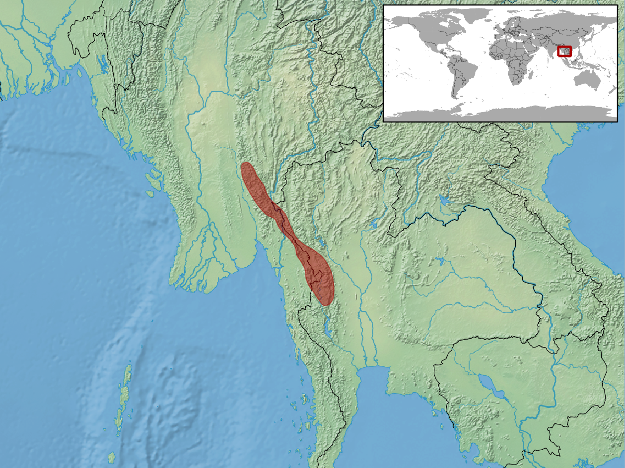 geographic distribution of Cyrtodactylus feae (Native: Myanmar)